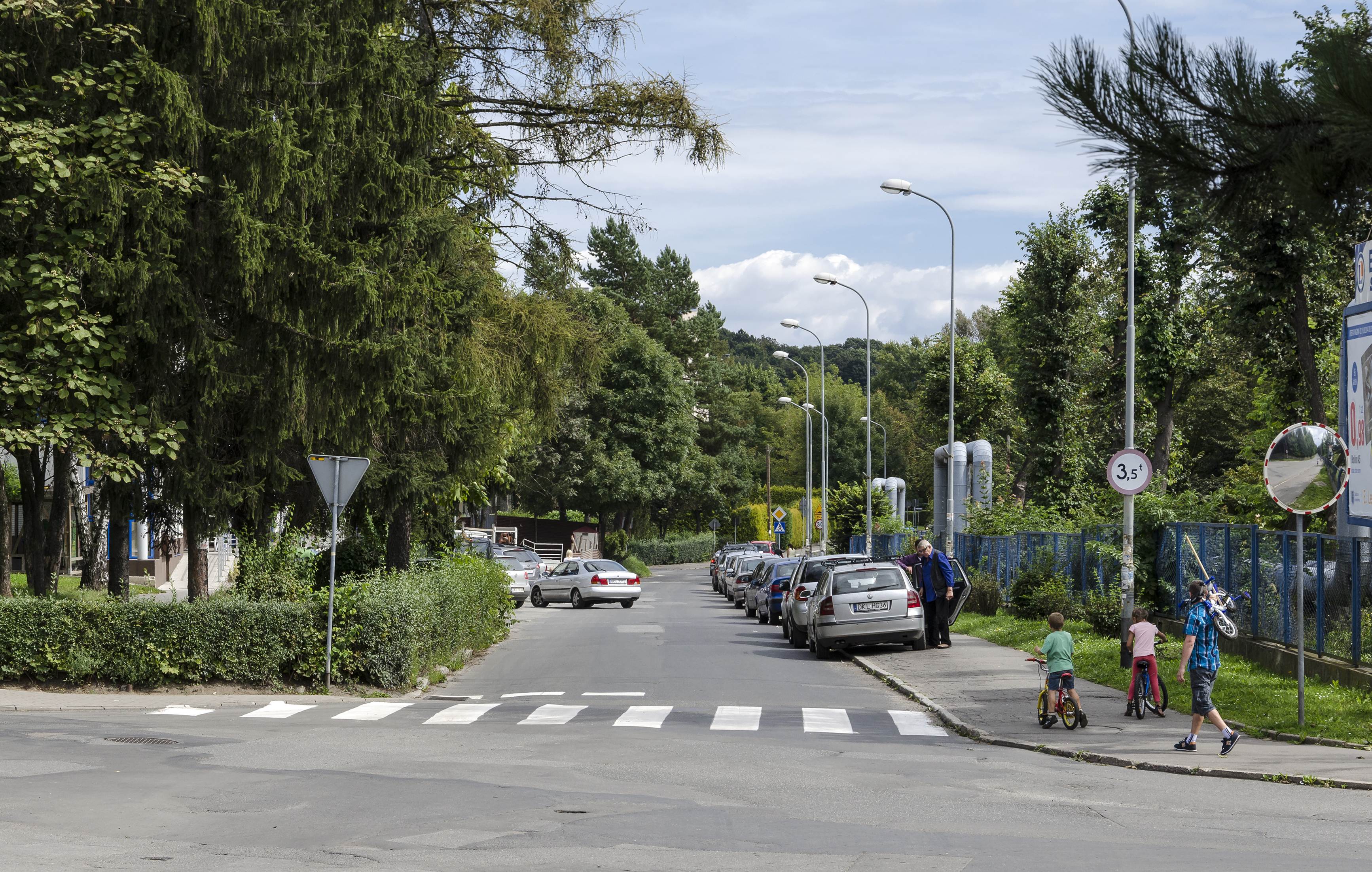 Kusocińskiego Street in Kłodzko